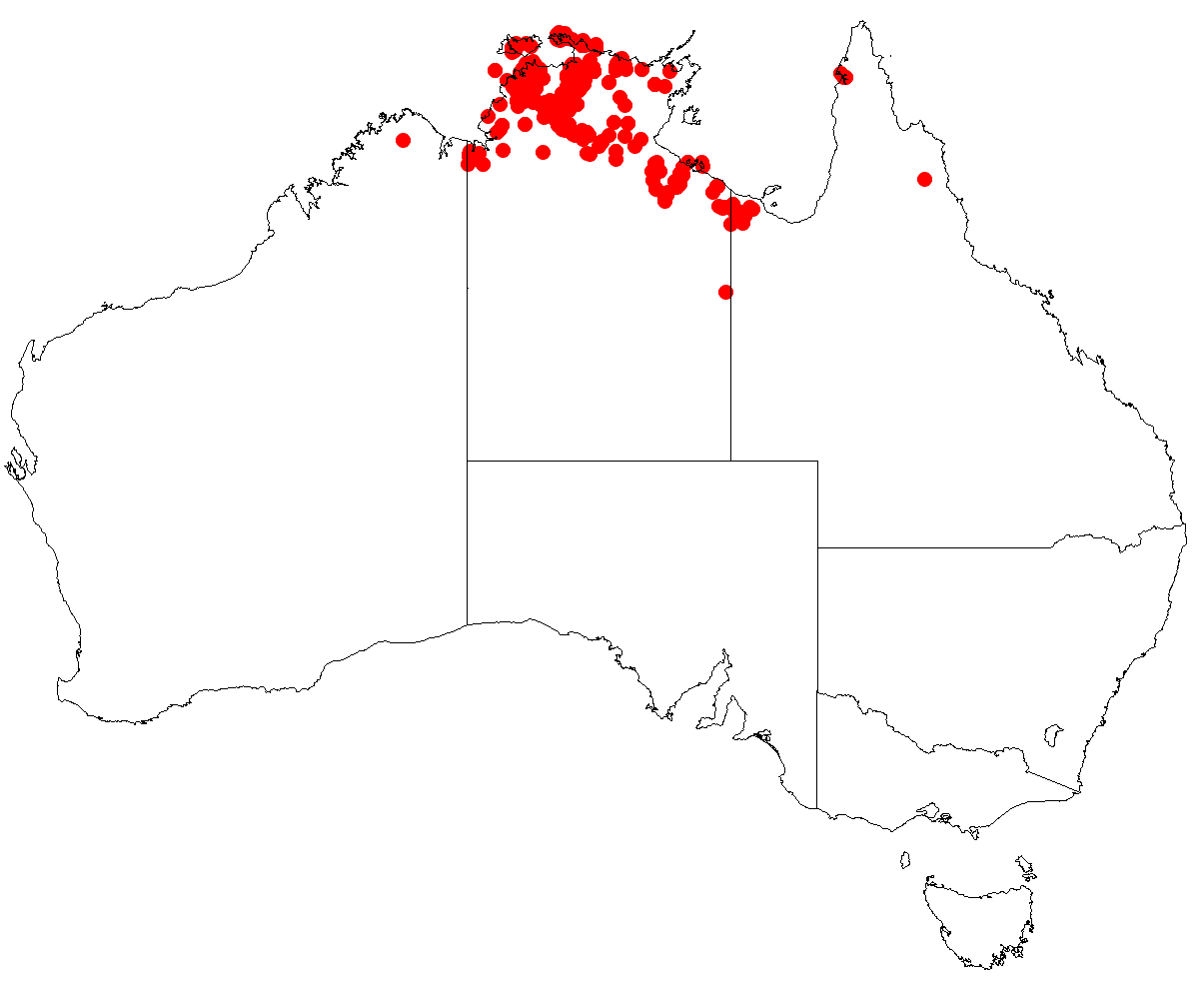 Acacia dimidiata Occurrence data downloaded from Australasian Virtual Herbarium, May 29, 2018